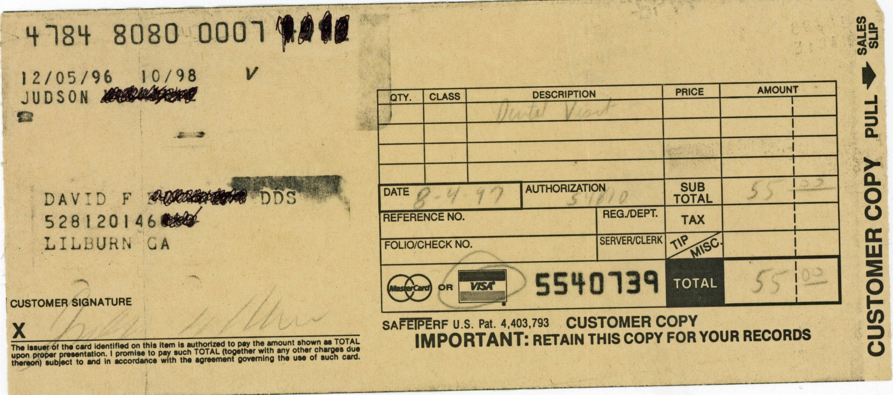 Old-style credit card receipt, 1997, where card is mechanically swiped and the data physically imprinted on the receipt